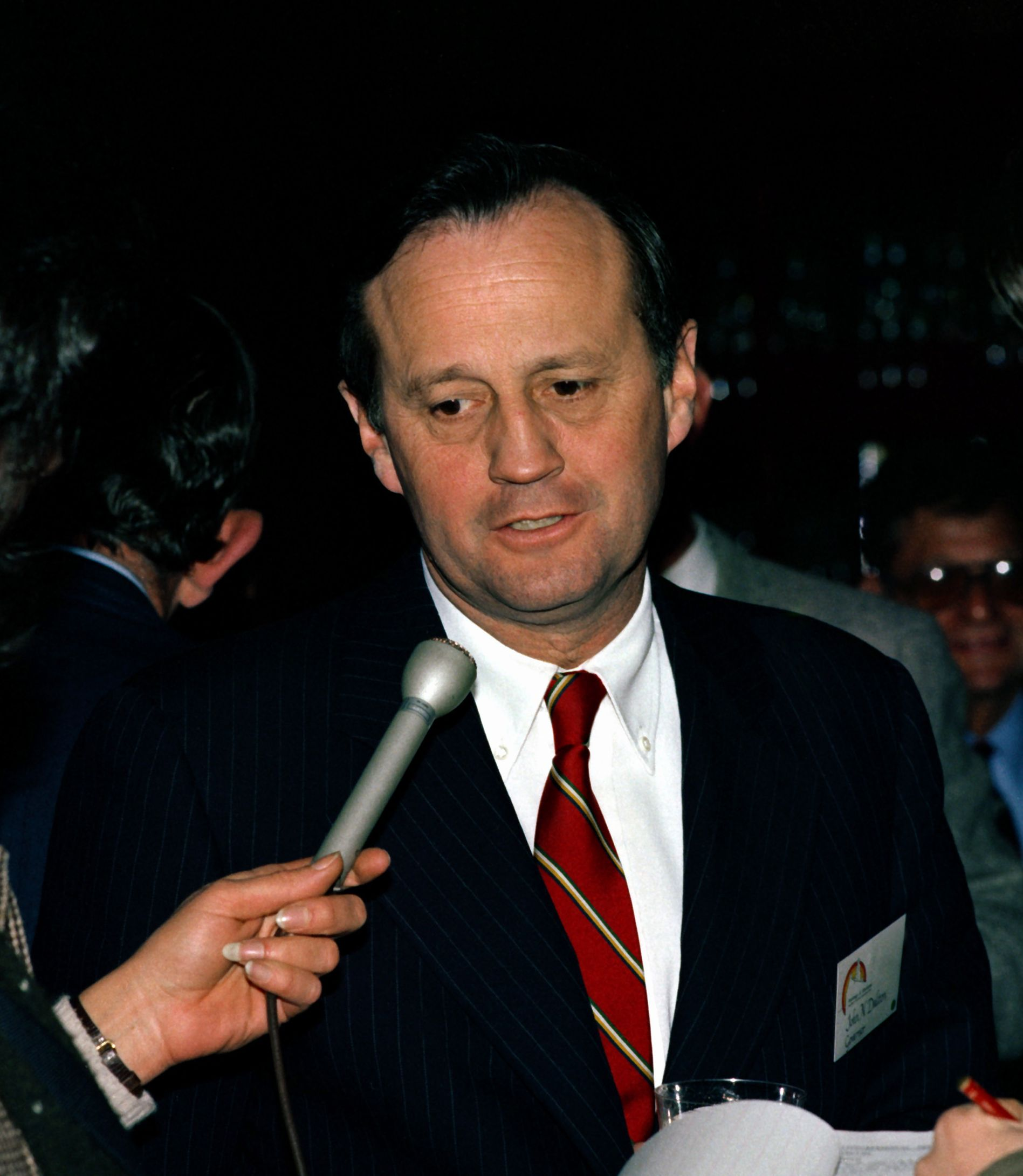 Virginia's Gov. John Dalton is interviewed by a reporter during his tour of the Marine base along with the Virginia General Assembly.